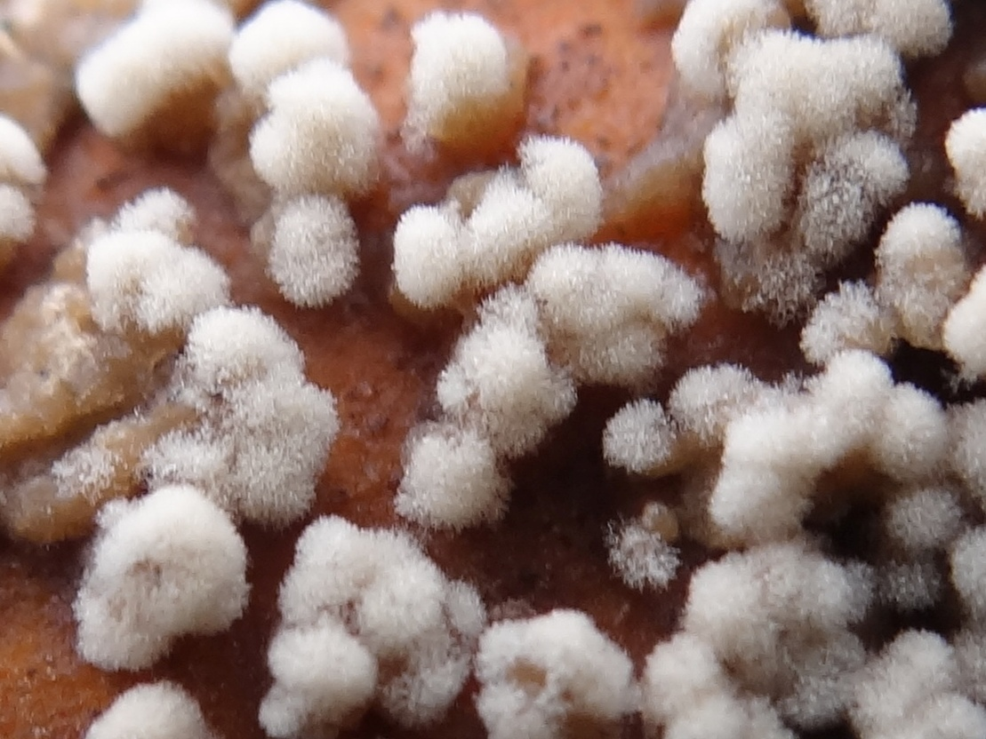 Sporodochium Monilinia fructigena on Pyrus domestica